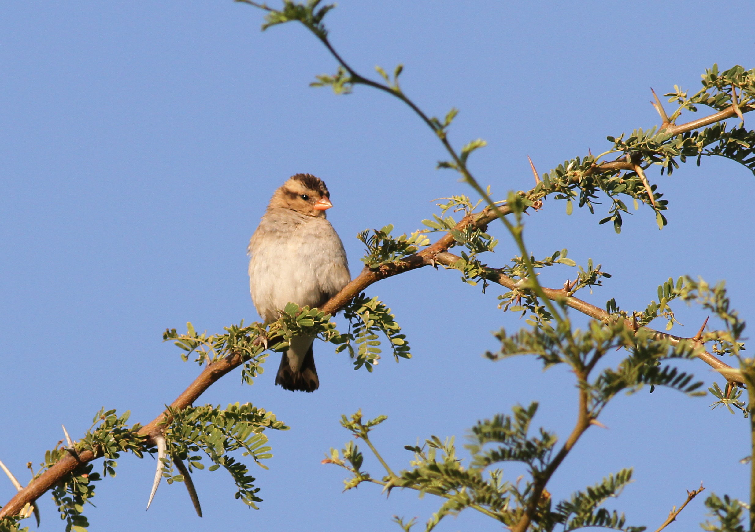 Female village indigobird, Vidua chalybeata, at Mapungubwe National Park, Limpopo, South Africa . Not good shots, but they go with all the males I posted.